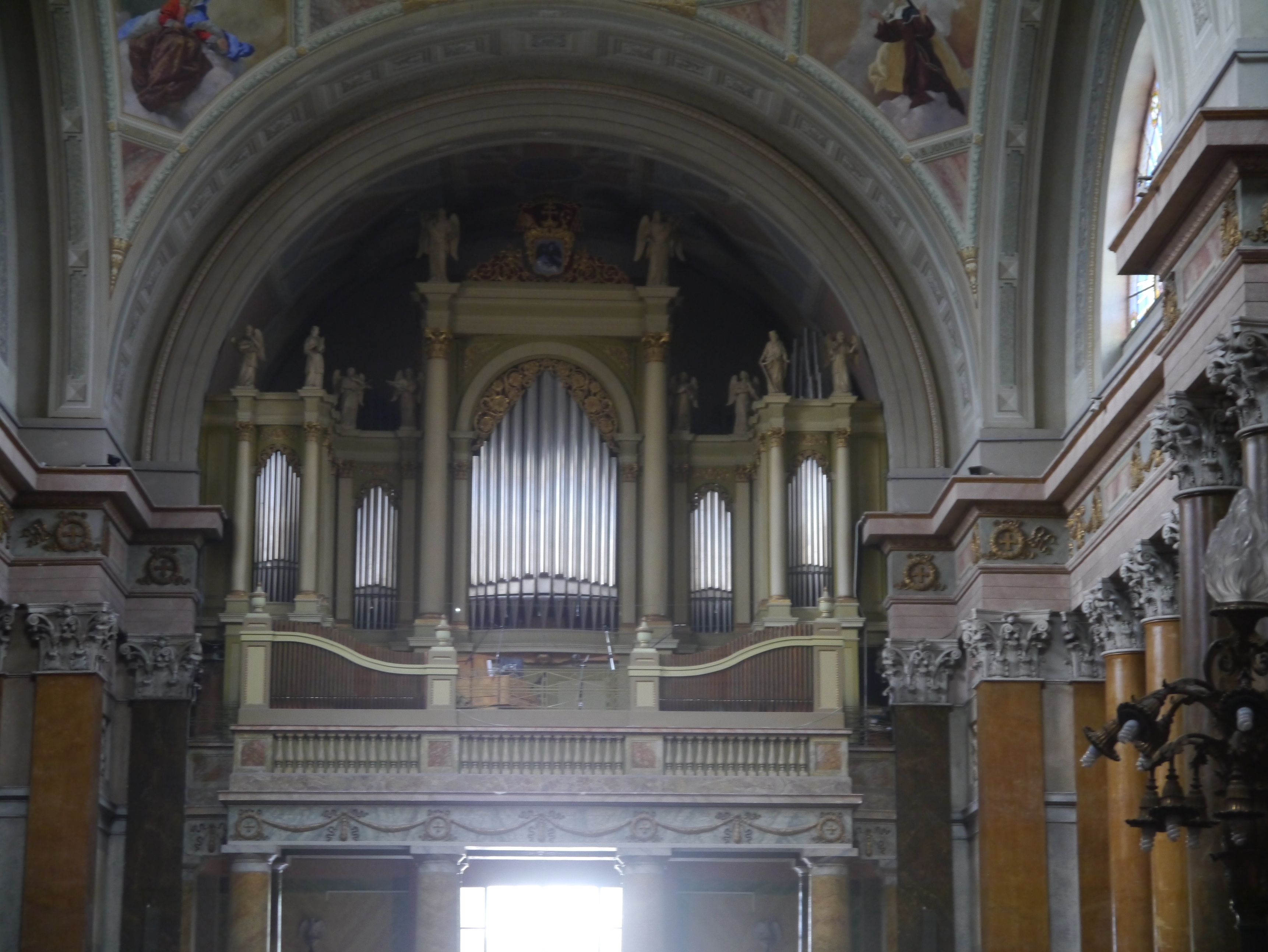 Organ of the Cathedral St. John, Eger, Northern Hungary